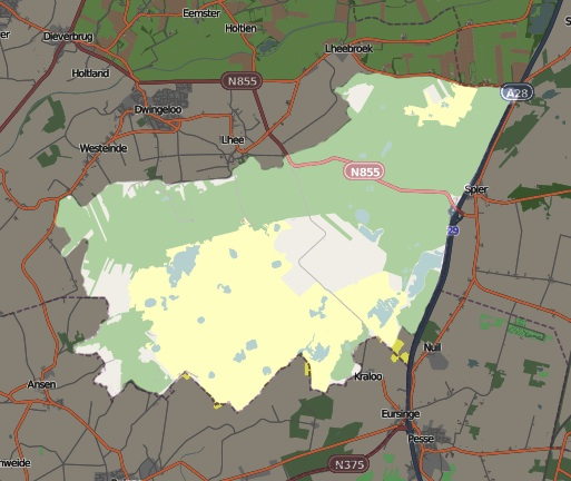 This map may be incomplete, and may contain errors. Don't rely solely on it for navigation.